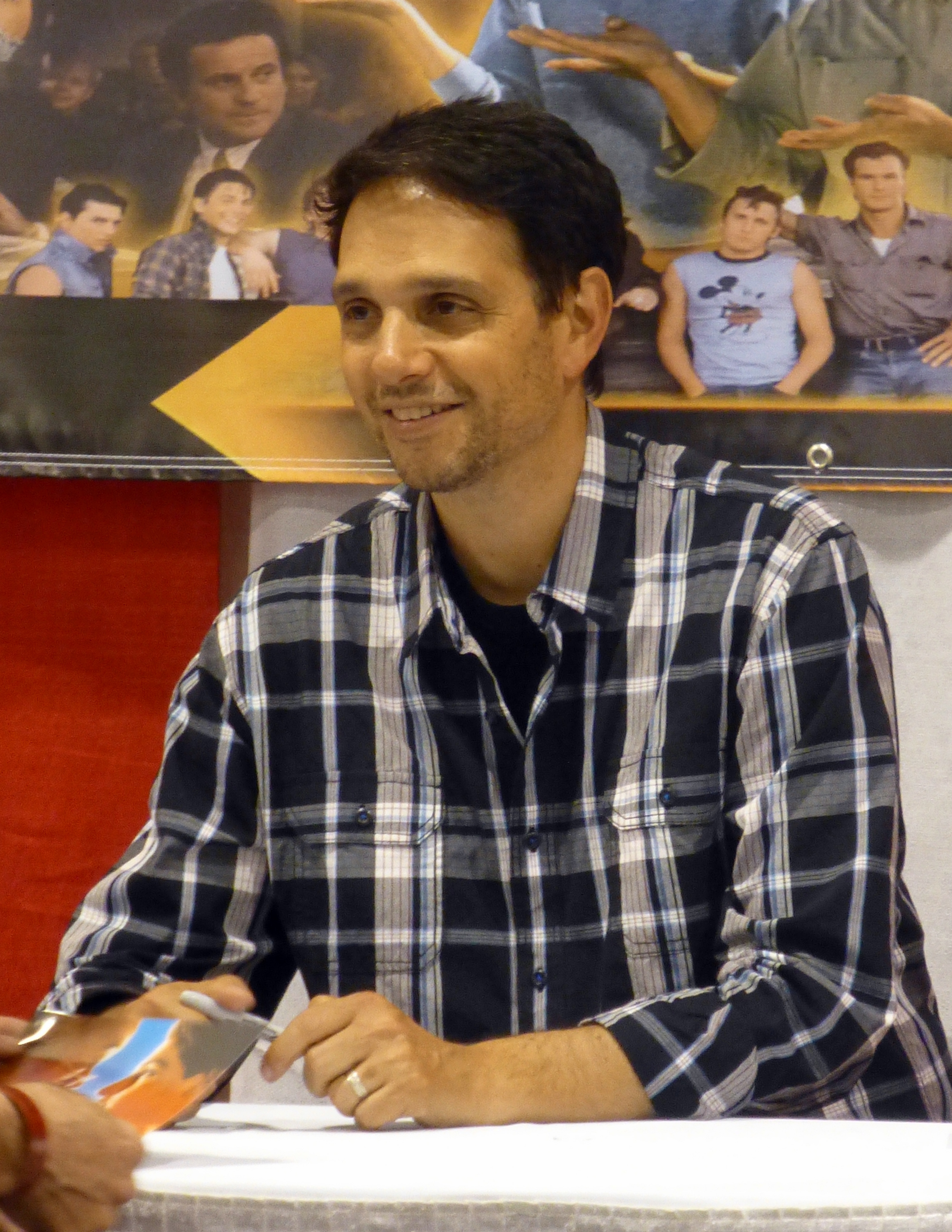 Ralph Macchio 01 Motor City Comic Con 2015